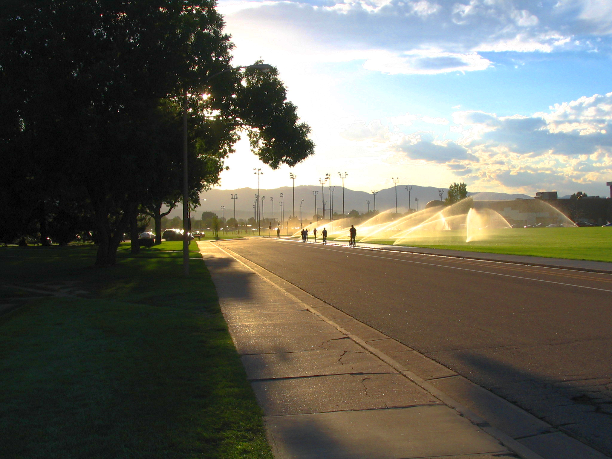 The campus of Colorado State University. View is facing west towards the Intermural fields. (Note: Shadows brightened in this pic)